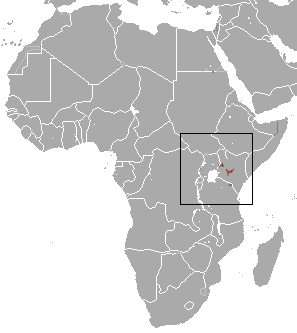 Montane White-toothed Shrew (Crocidura montis) range